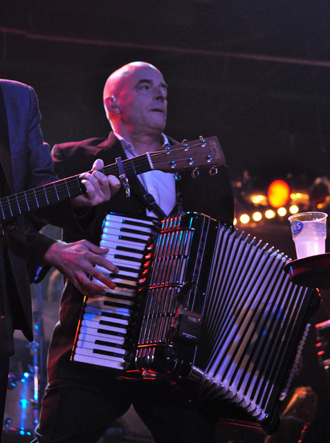 James Fearnley, Milk club, Moskau, 29.08.2010